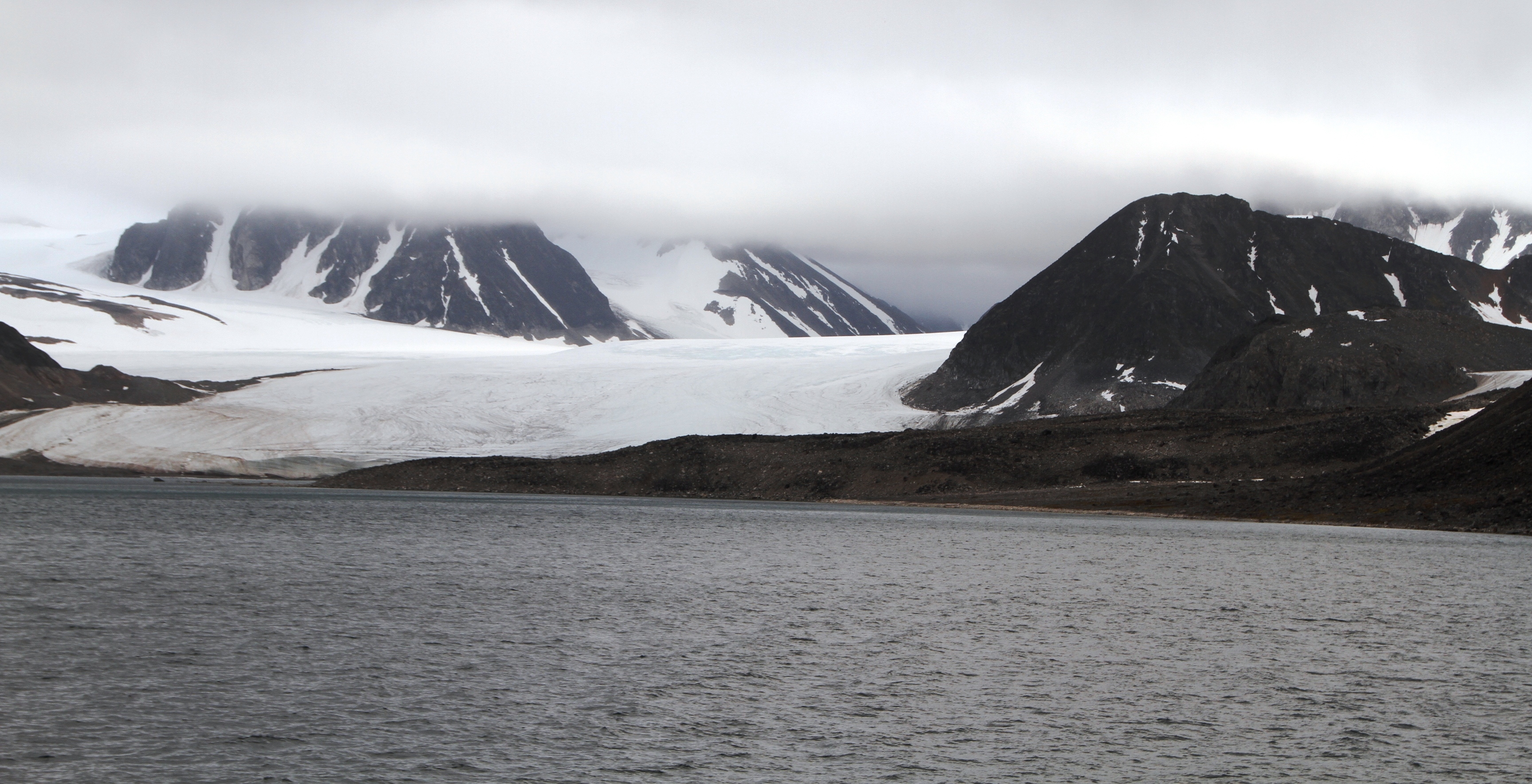 Mountains and glaciers of the Smeerenburg Fjord, northwestern Spitsbergen.